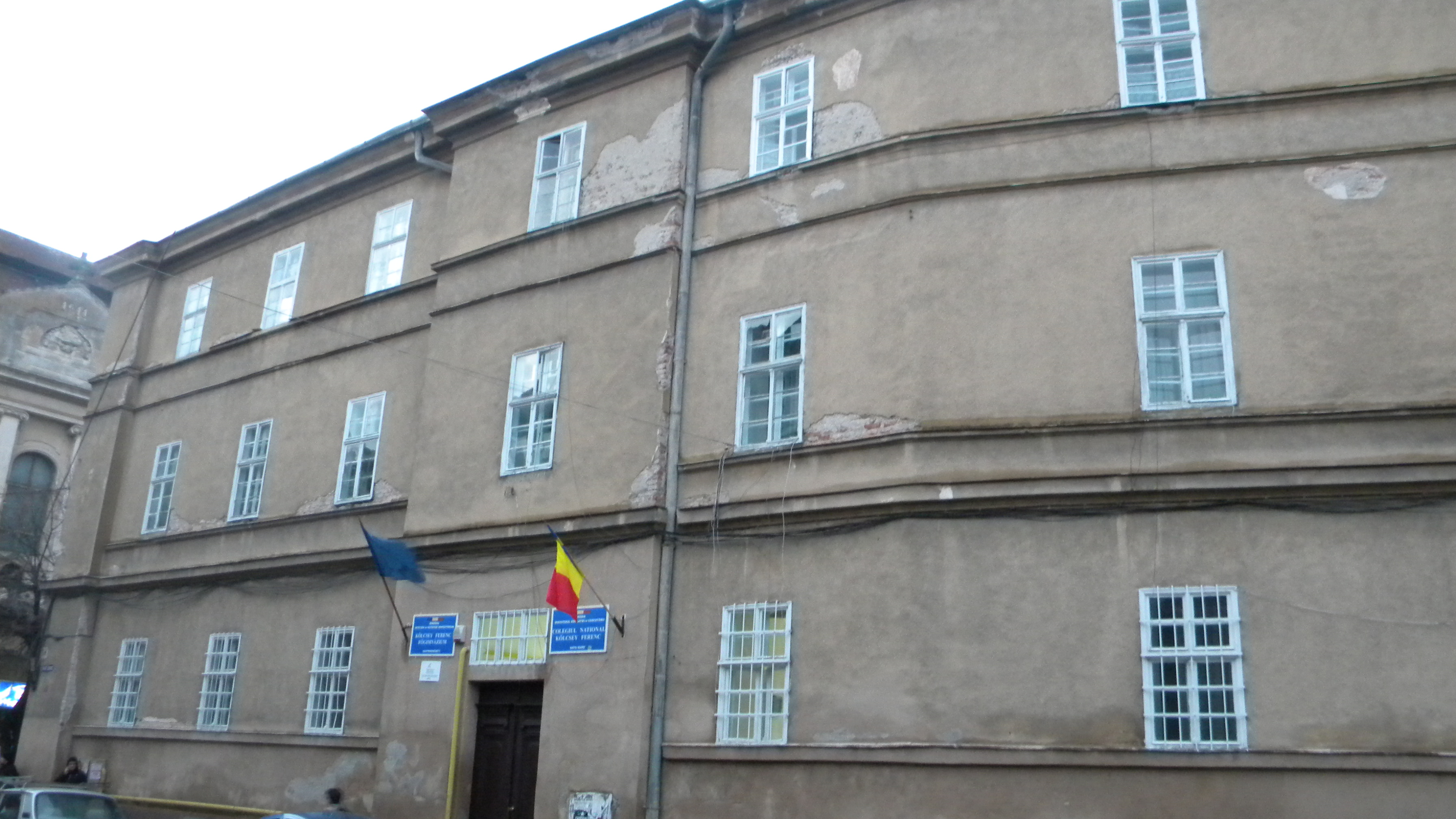 Kölcsey Ferenc National College